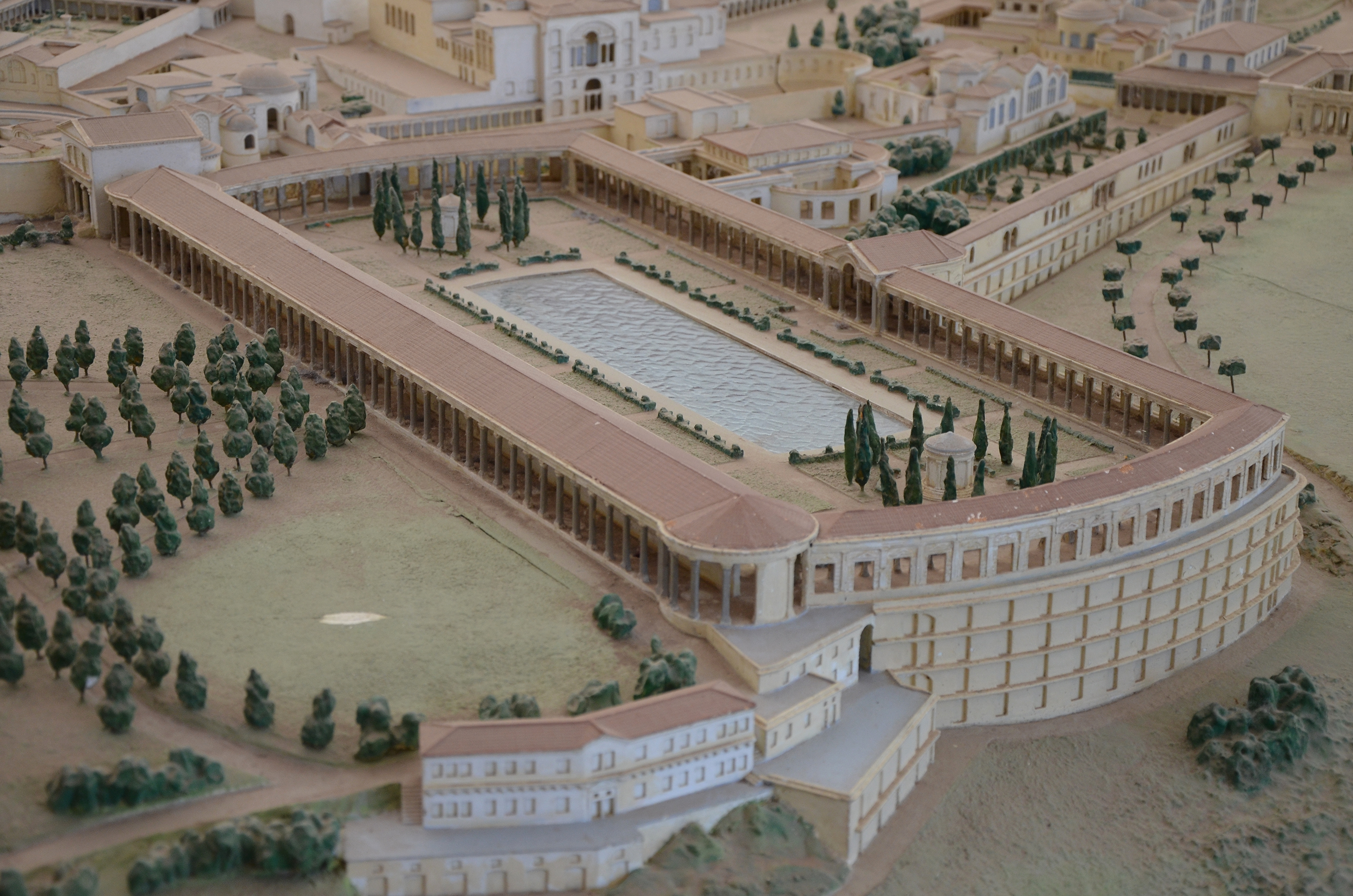 Model of Hadrian's Villa showing the Pecile and the Hundred Chambers